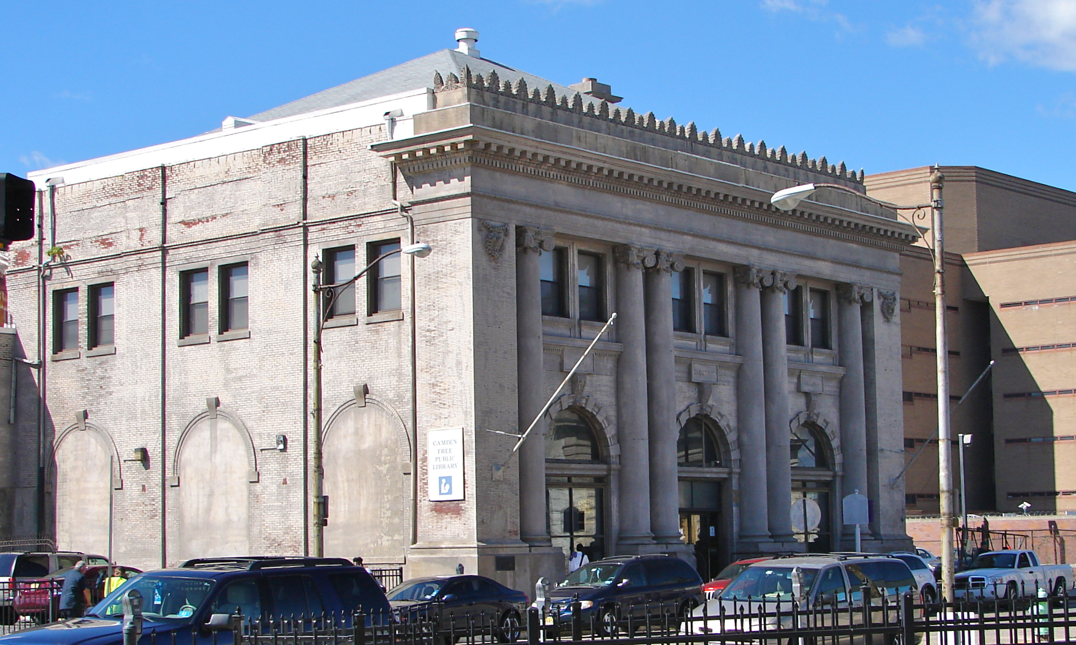 South Jersey Gas, Electric and Traction Company Office Building on the NRHP since January 5, 2005. At 418 Federal St. in Camden, New Jersey. Now used as a library.